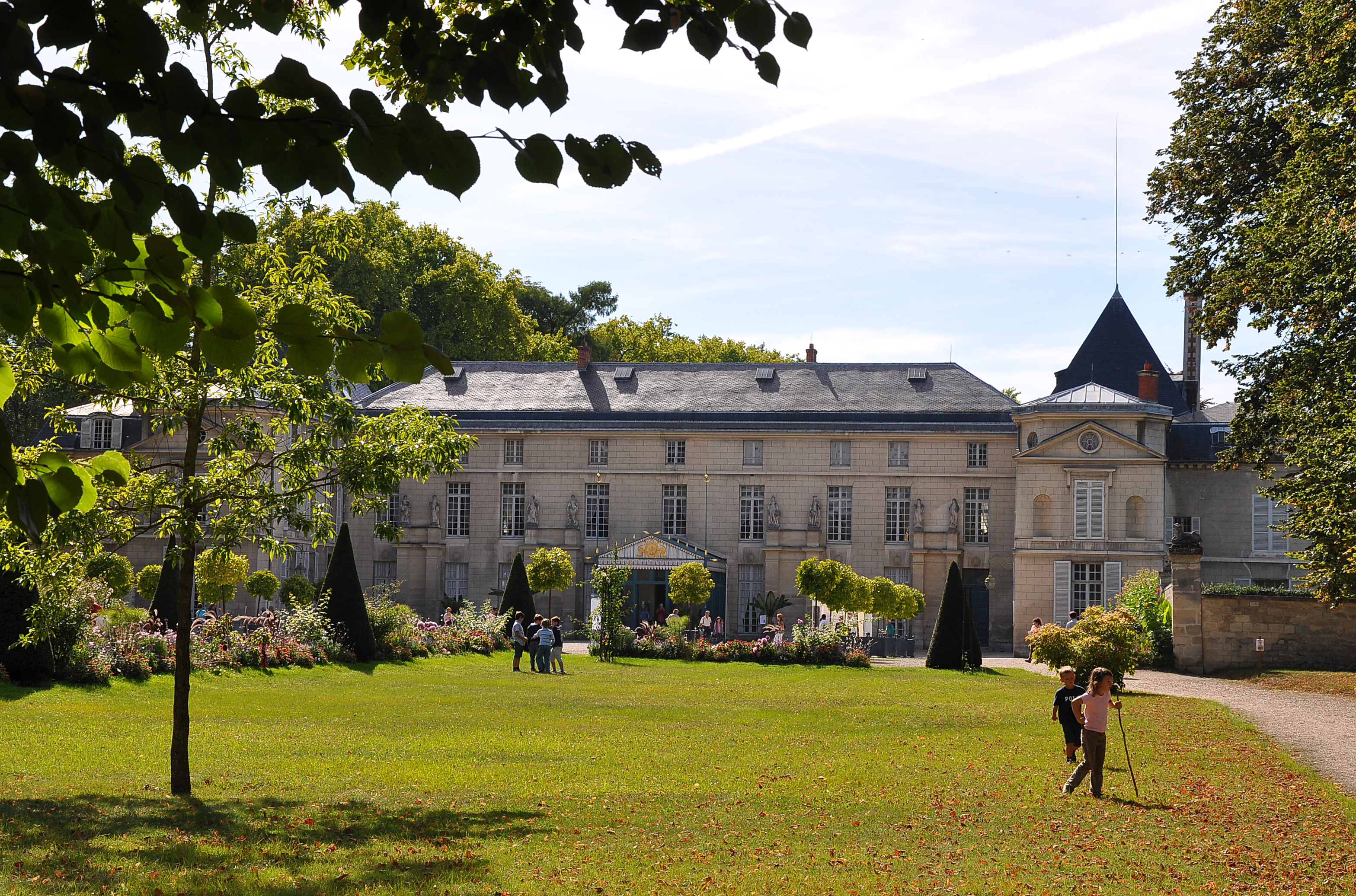 Château de Malmaison in Rueil-Malmaison, department of Hauts-de-Seine, France. Residence of empress Joséphine de Beauharnais, wife of Napoléon Bonaparte. View of the principal entrance.